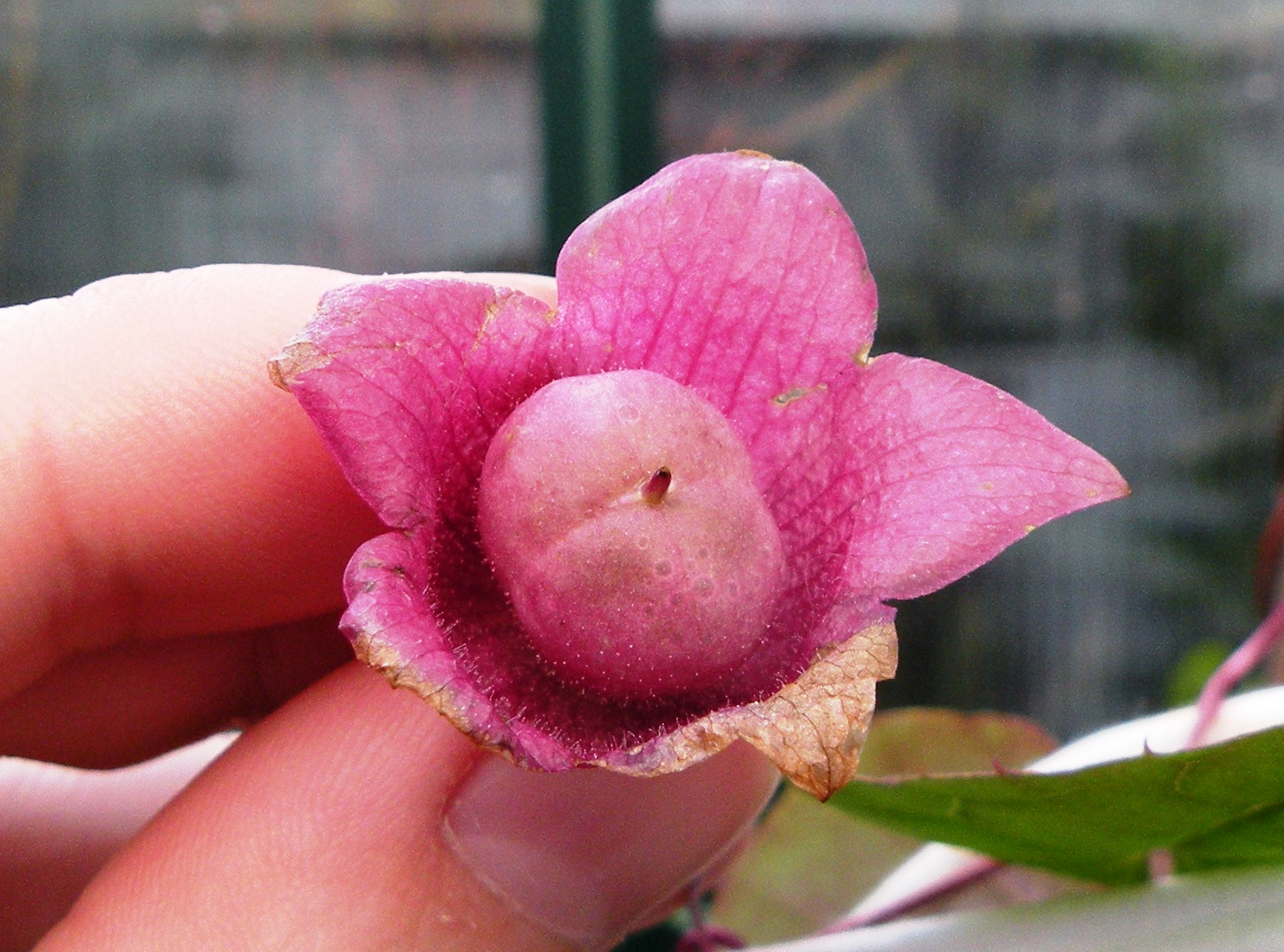 Developing seed pod of Rhodochiton astrosanguineum